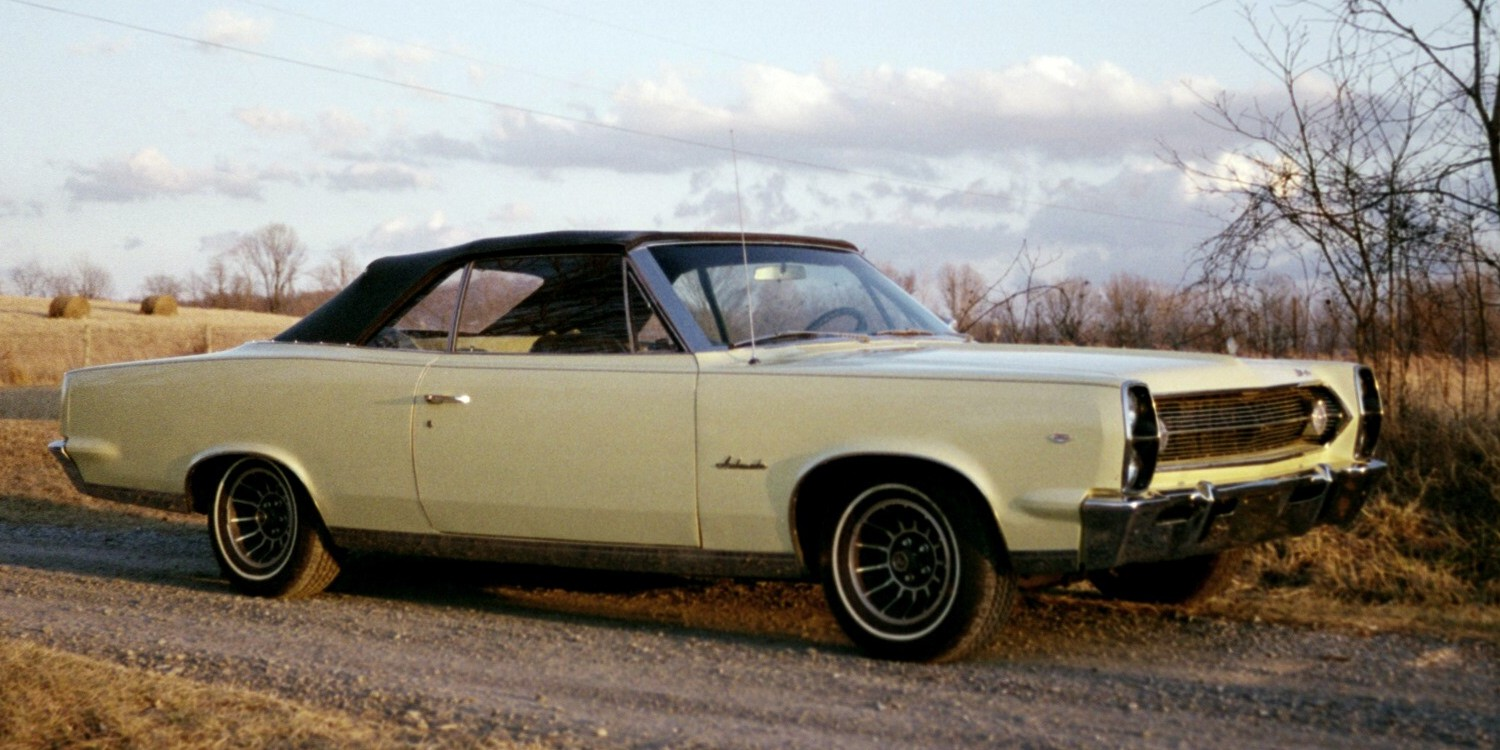 1967 Ambassador DPL convertible by American Motors Corporation (AMC) with the top up. Photograph of my automobile on a mild West Virginia winter afternoon. Note the wheels are not correct for this model year, they are AMC's aluminum 7"x14" road wheels known as "TurboCast II" that were available from 1979 to 1983.